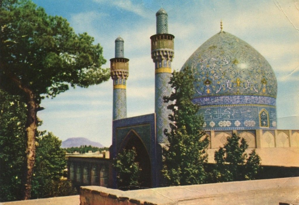 Madrasa Chaharbagh, 1963 postcard